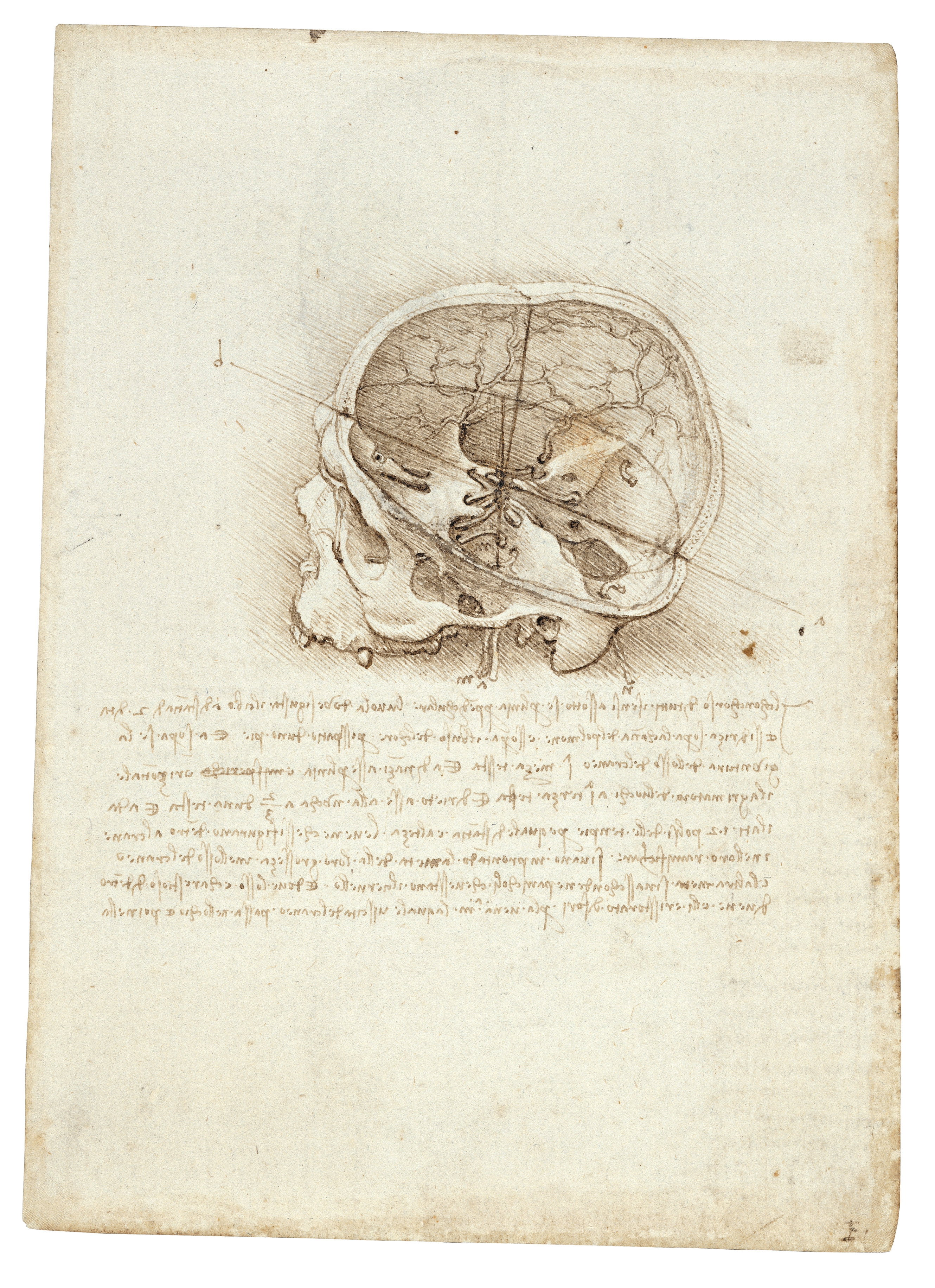 Anatomic painting of Leonardo Da Vinci - Scull